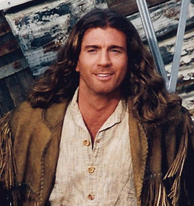 Joe Lando as "Sully" on the set of "Dr. Quinn, Medicine Woman" at Paramount Ranch in February 1998.